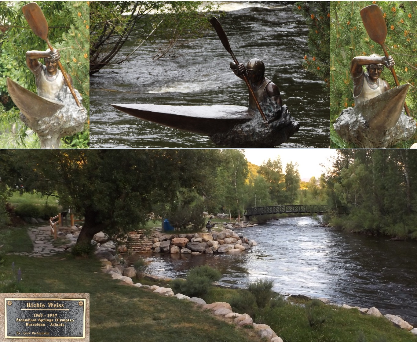 Tyler Mark Richardella's statue of Richie Weiss in Steamboat Springs, Colorado.